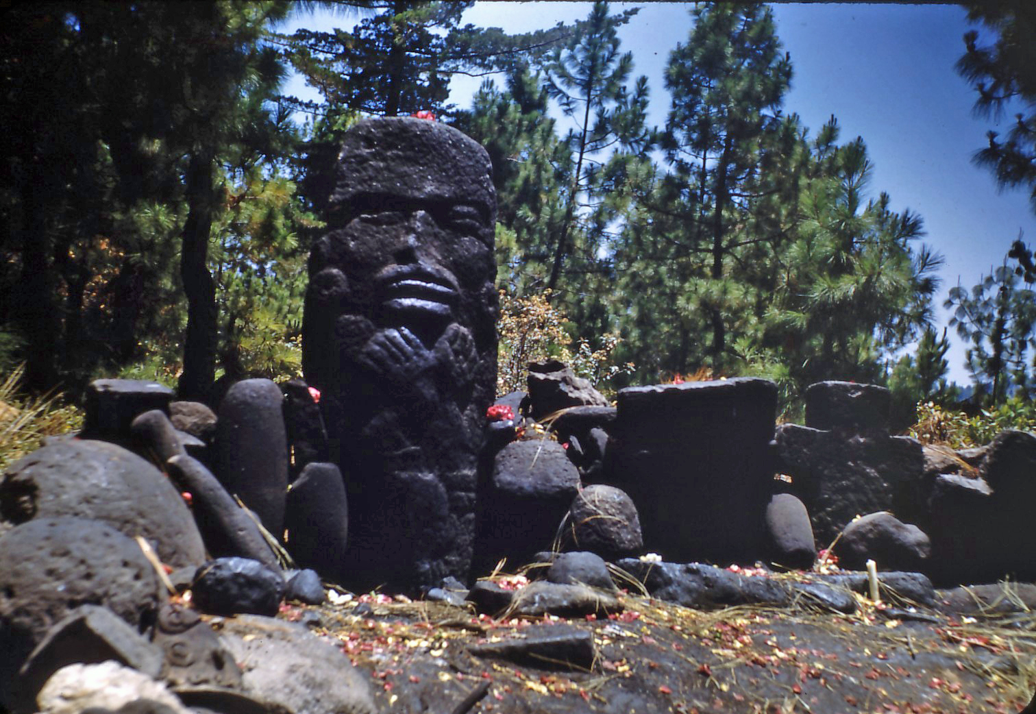 Altar still in use, Chichicastenango, Guatemala, 1948 Uploader's note: Image shadows were lightened by the uploader